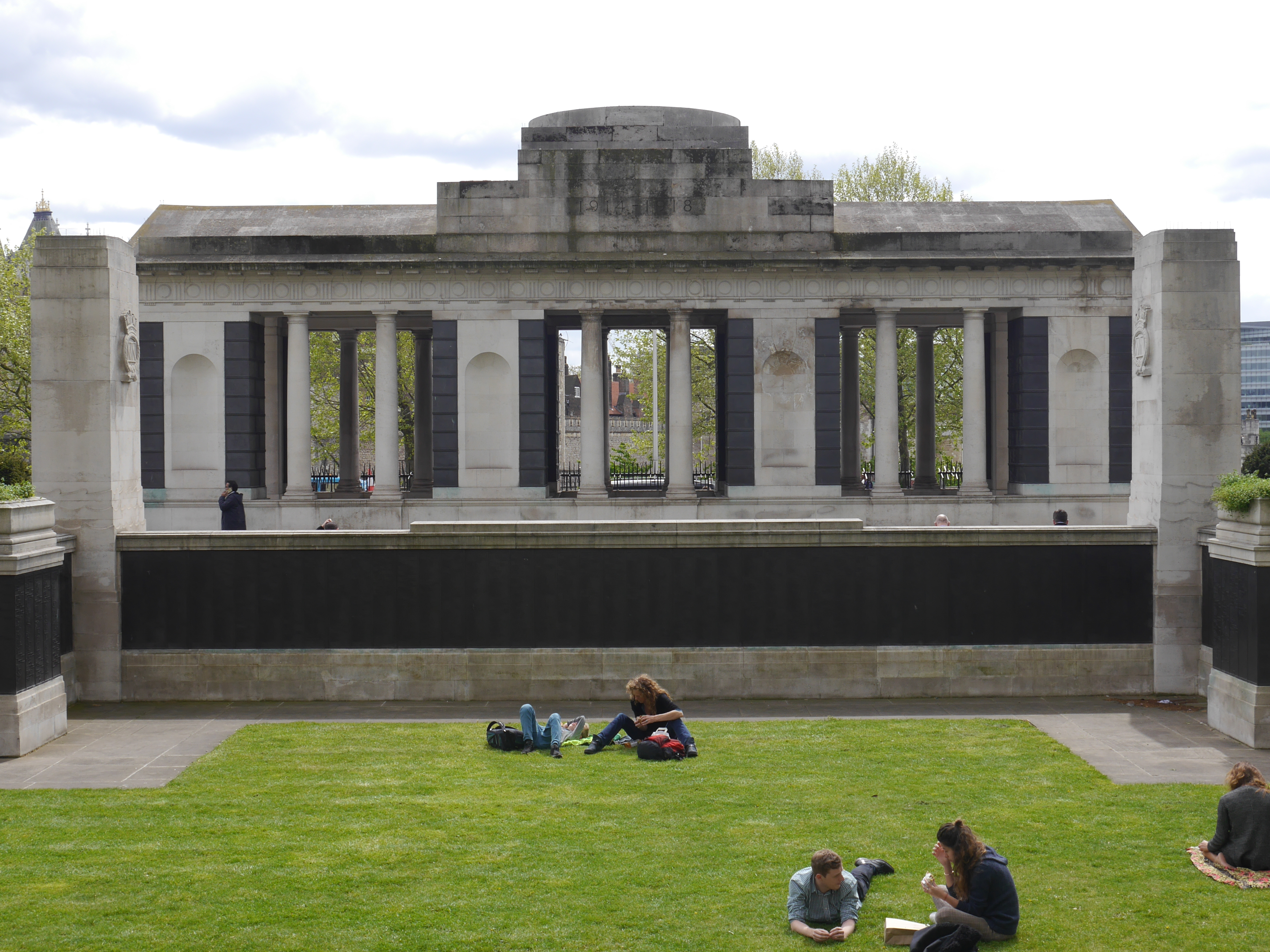 The north elevation of the Tower Hill Memorial and the sunken gardens of the adjacent second world war memorial